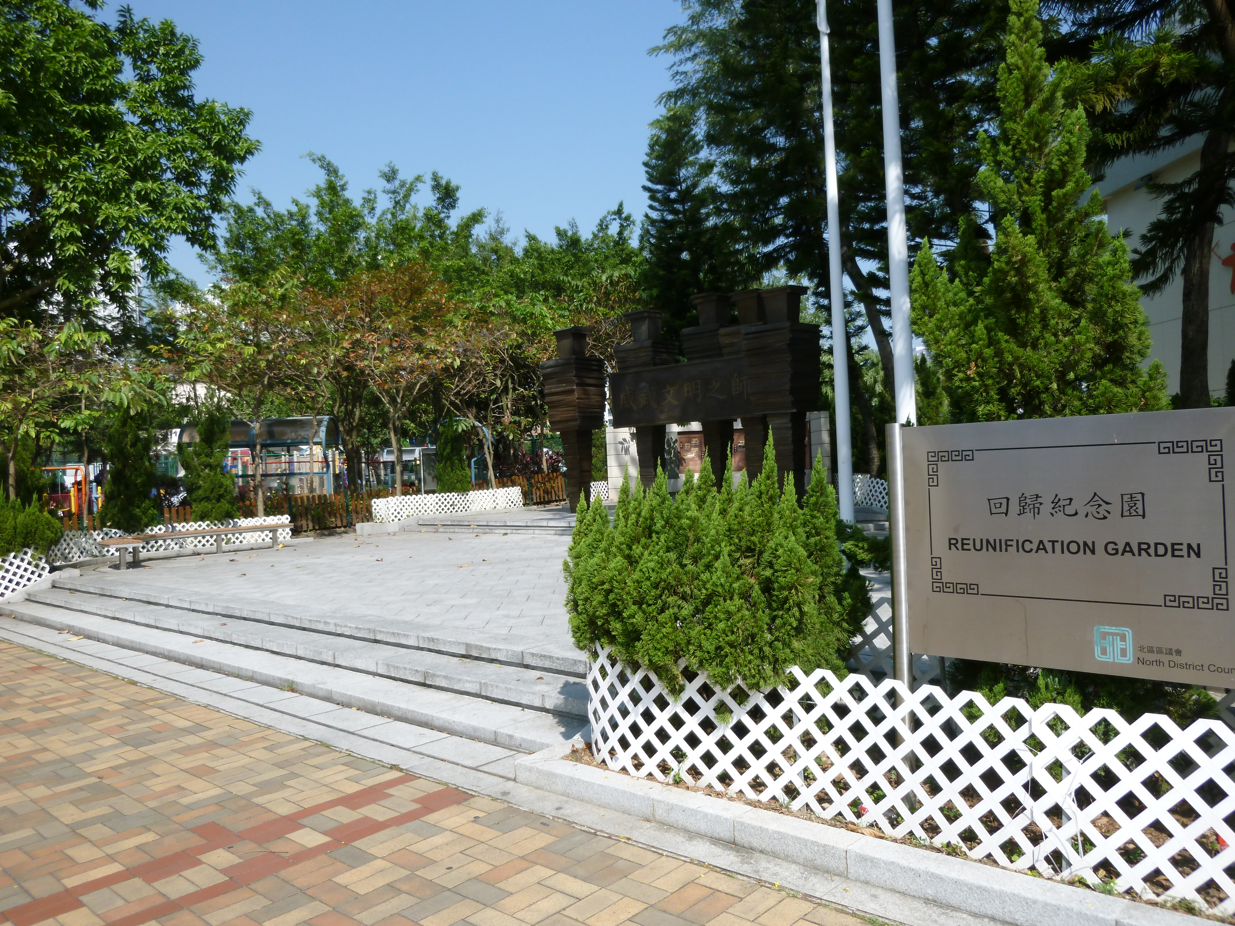 Reunification Garden (Sheung Shui, Hong Kong) 中文（香港）: 回歸紀念園 (香港新界上水)